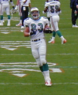 If used somewhere other than Wikipedia, Nelson, by name.